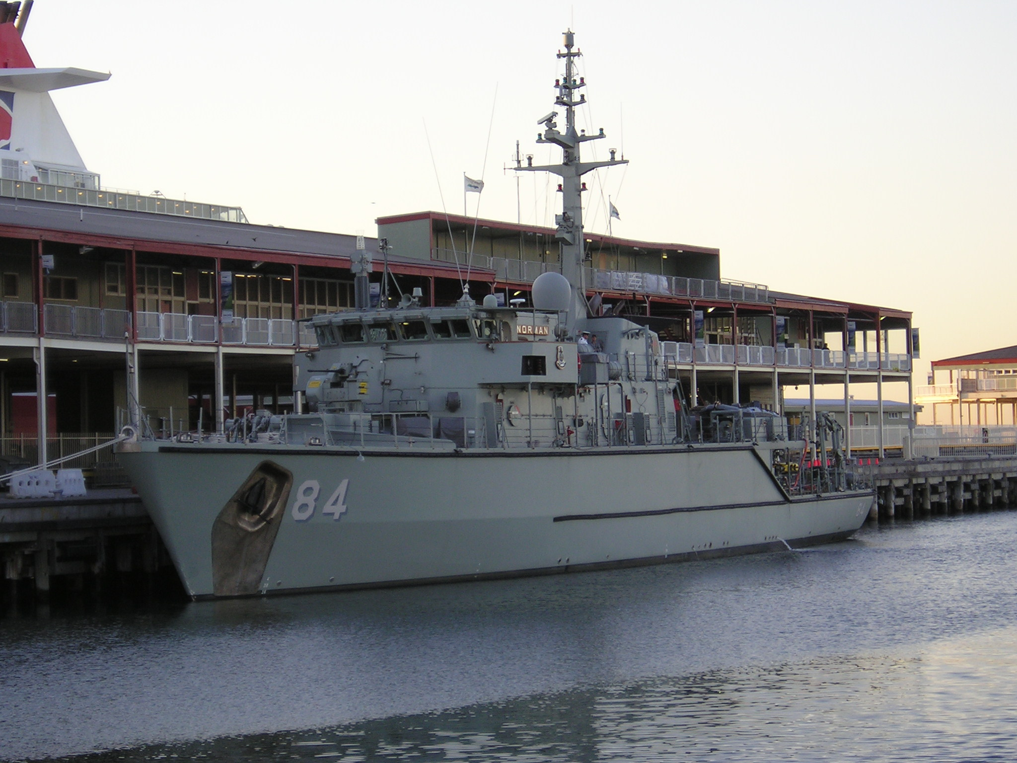 HMAS Norman at Station Pier, Melbourne, March 2006 Photo by Paul Dashwood